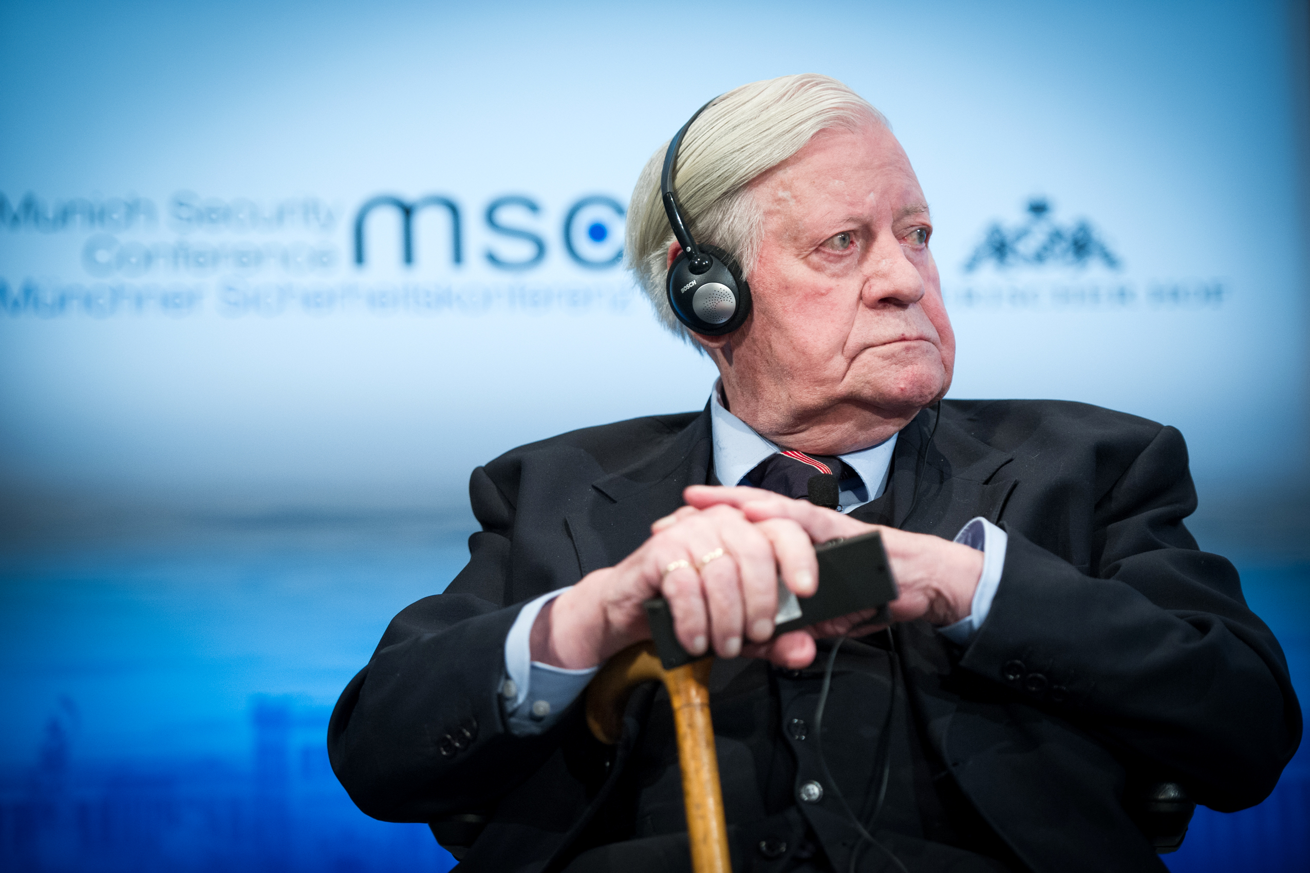 50th Munich Security Conference 2014: Helmut Schmidt: Helmut Schmidt (Former Federal Chancellor of the Federal Republic of Germany; Editor, Die Zeit, Hamburg).